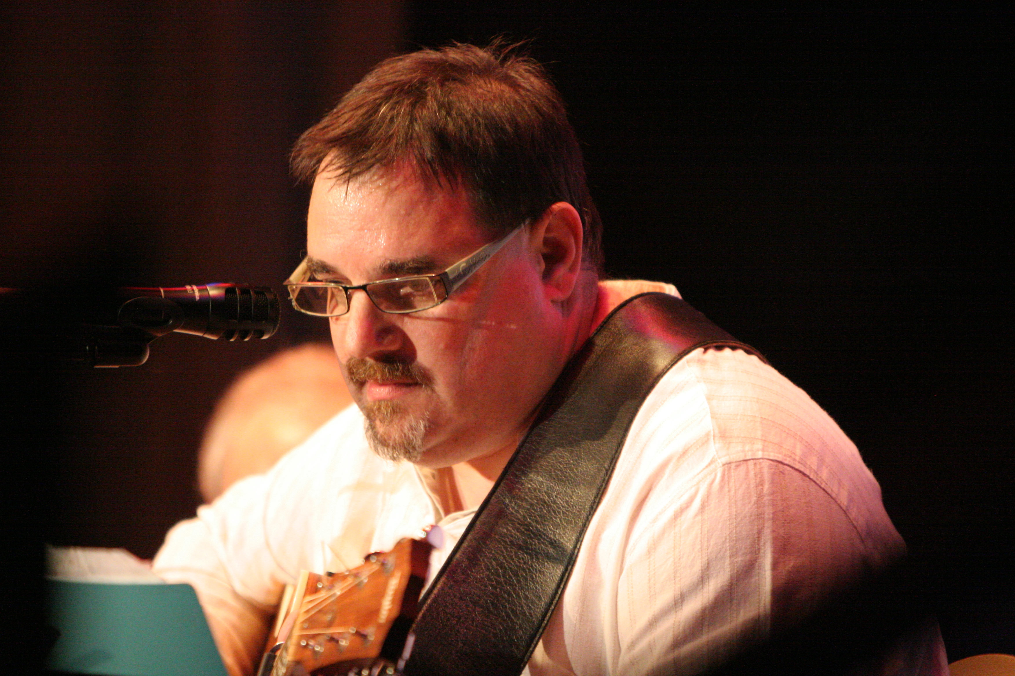 Guy Manning performing in Aug 2008